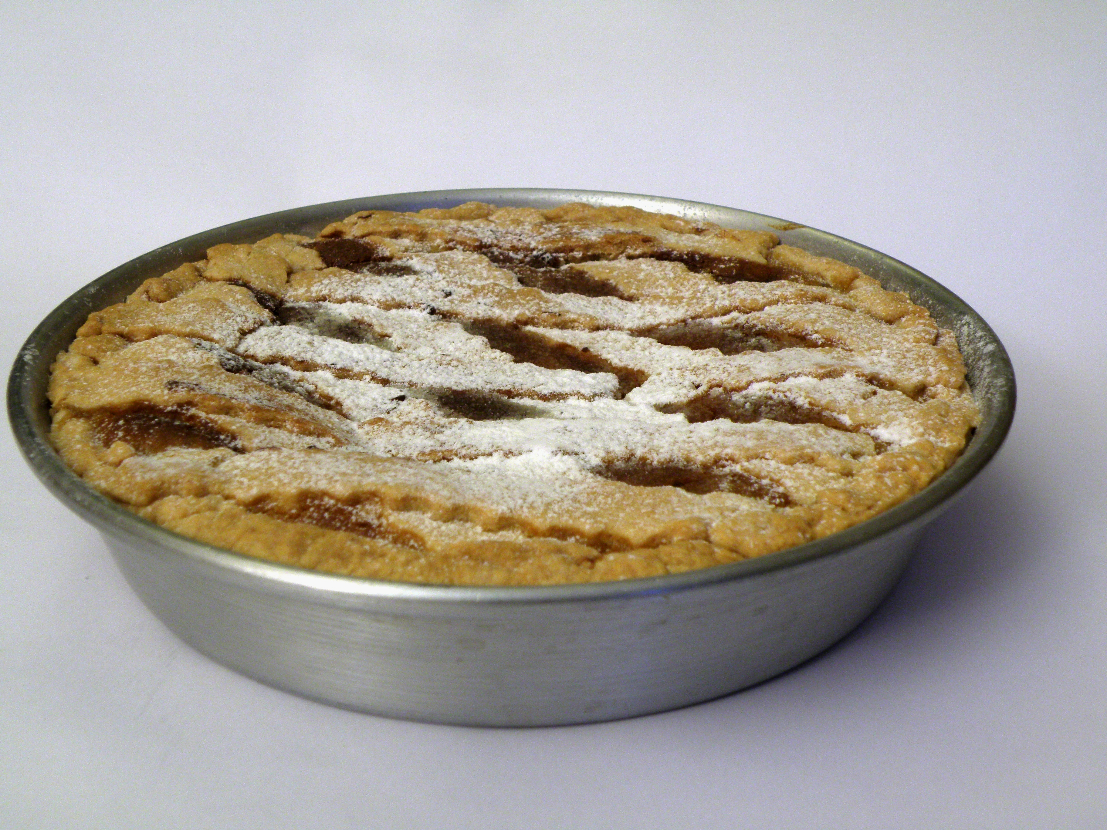 A pastiera napoletana, just made, still in the skillet. A cake of Napoli's tradition.